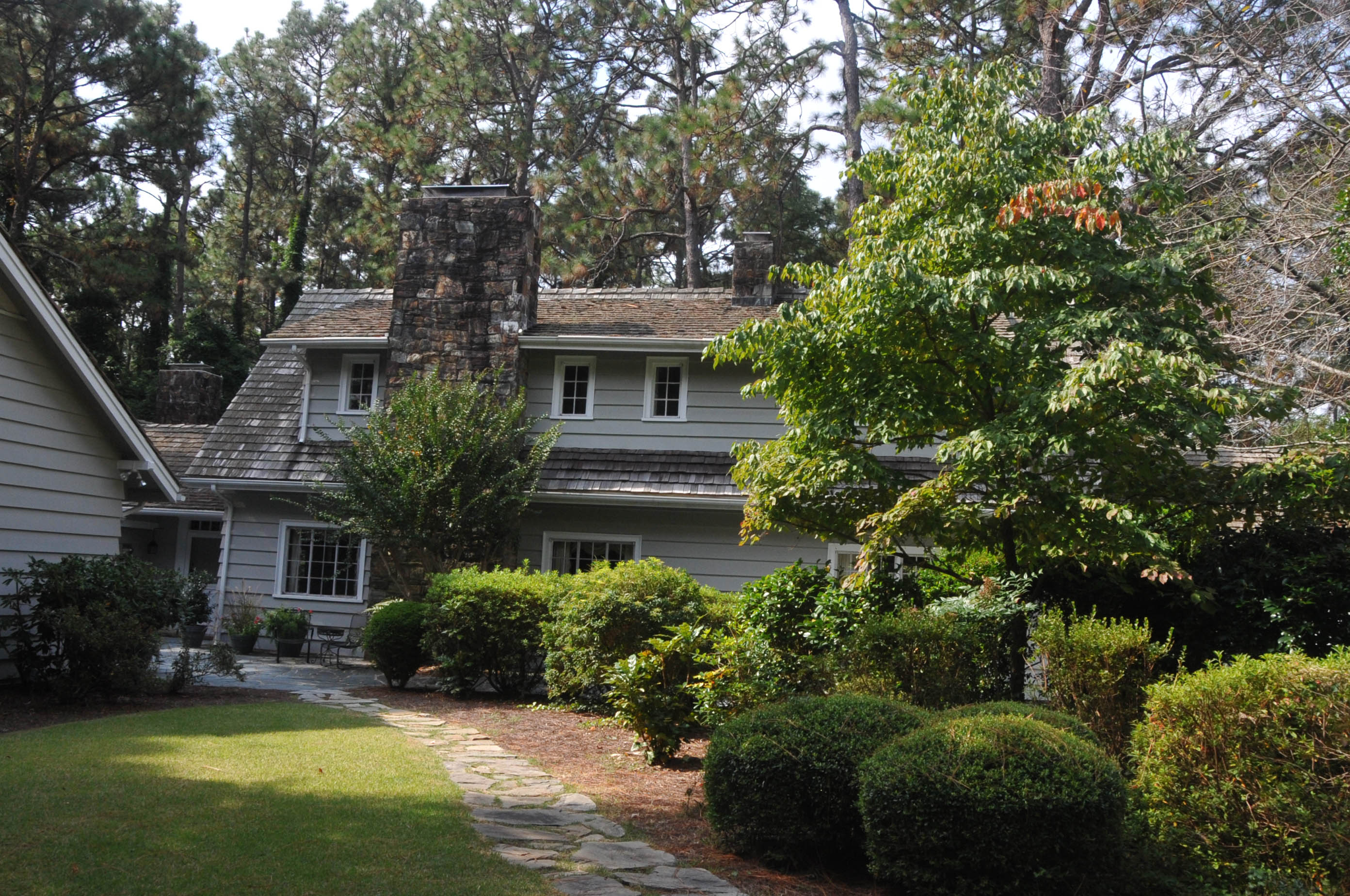 1929 CAPE COD WHICH WAS THE CENTER OF A GARDEN COMPLEX CALLED CLARENDON GARDENS; ALSO KNOWN AS HOWE HOUSE AND “ANCHORS AWEIGH” . THE HOUSE WAS ONCE SURROUNDED BY SHOW GARDENS AND SEVERAL NURSERIES. IT IS NOW LOCATED ALONG A CIRCULAR ROAD- QUAIL RUN IN PINEHURST